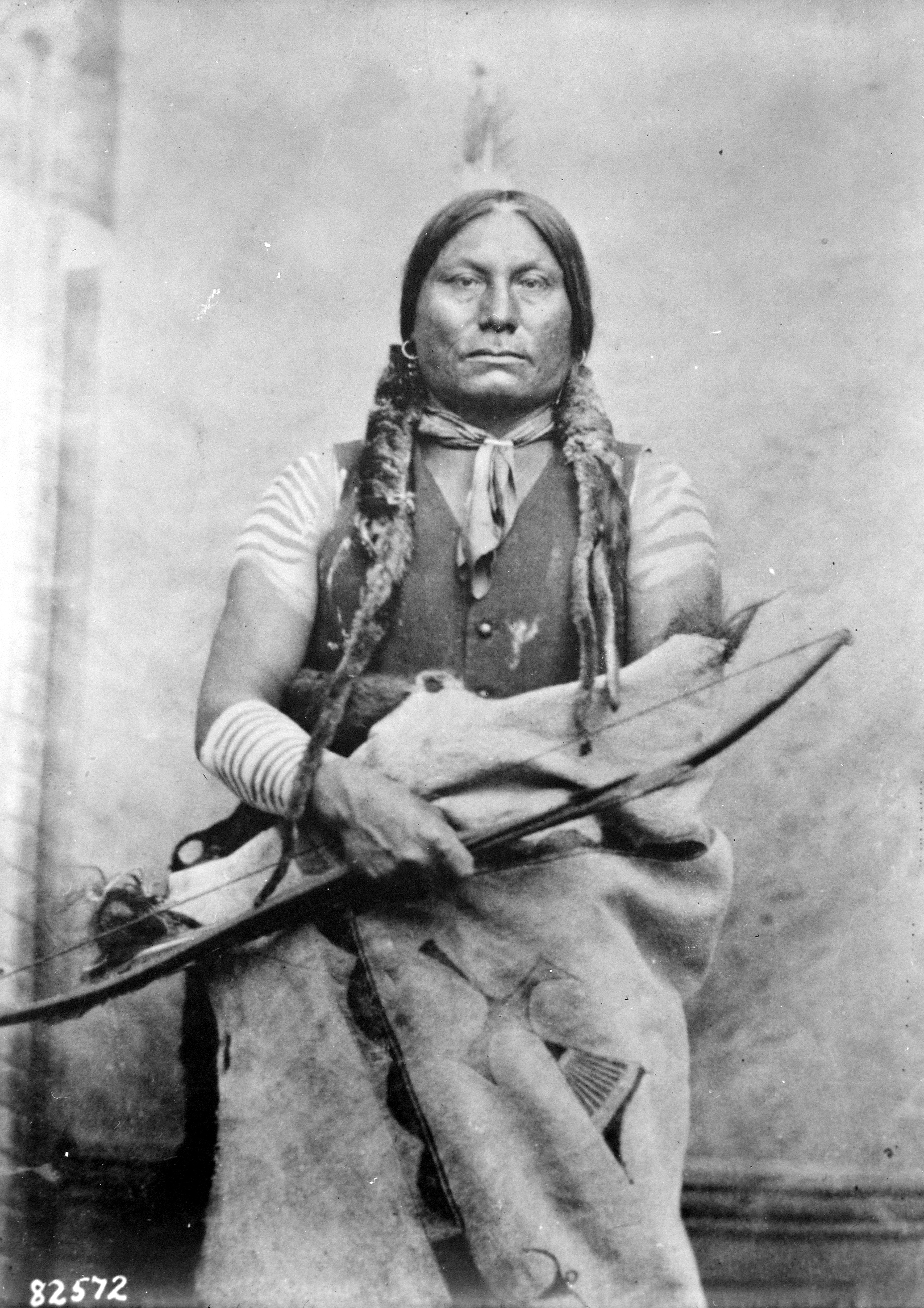 Chief Gall (Pizi) Hunkpapa Lakota leader; three-quarter- length, seated. holding bow and arrow. Photographed by David F. Barry at Fort Buford, Dakota Territory, 1881.